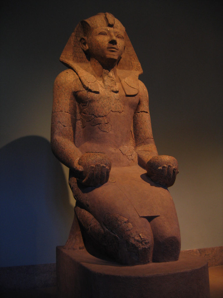 Hatshepsut offering nw jars, Eighteenth dynasty of Egypt, c. 1503-1482 B.C. Red granite sculpture at the Metropolitan Museum of Art, New York City. The Donor was Rogers Fund (1920) One of eight colossal statues of Hatshepsut recovered from Deir el-Bahri, which were likely placed on the upper terrace of Hatshepsut's temple, near the Temple of Amun. She is symbolically portrayed as a male monarch, wearing the royal nemes headdress and presenting nw jars, which formed part of a religious ritual performed in a god's sanctuary. When Thutmosis III ordered Hatshepsut removed from history, her statues were vandalized; the uraeus serpent was broken from the headdress of this one, and the entire statue smashed to pieces, to be reassembled only after the fragments were excavated.